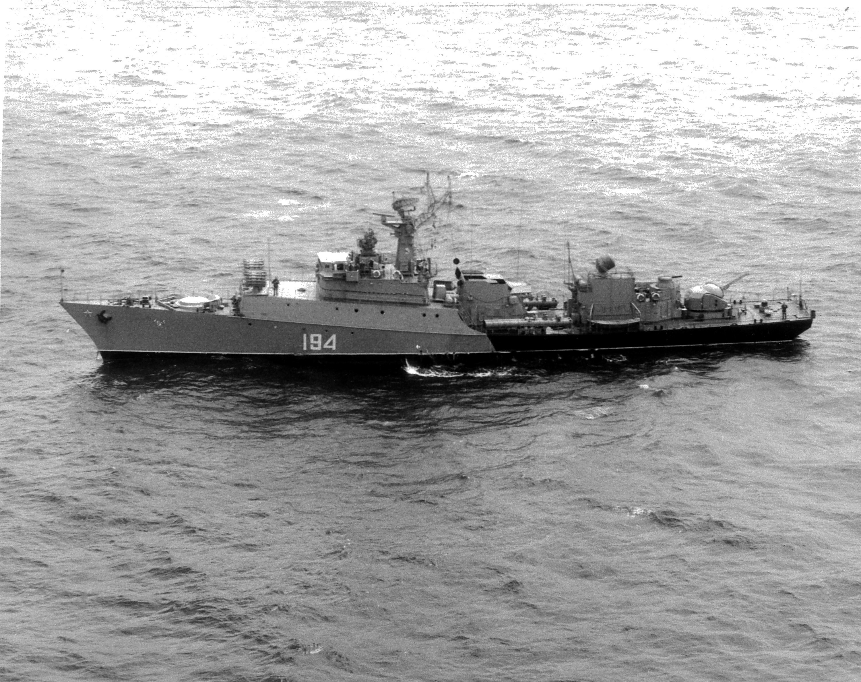 Aerial port beam view of a Soviet Grisha class frigate underway.